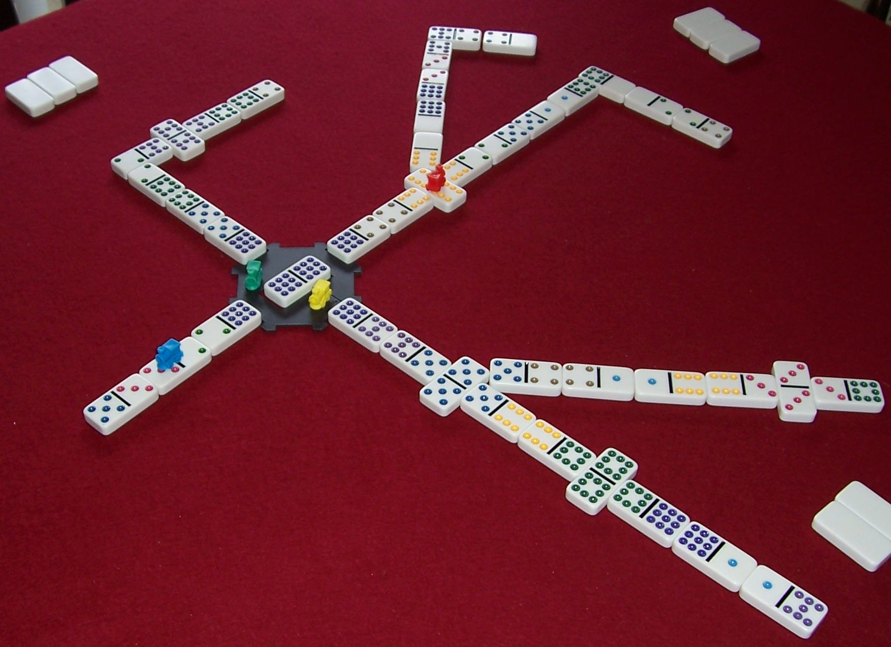 A typical Mexical Train layout using double-nine dominoes